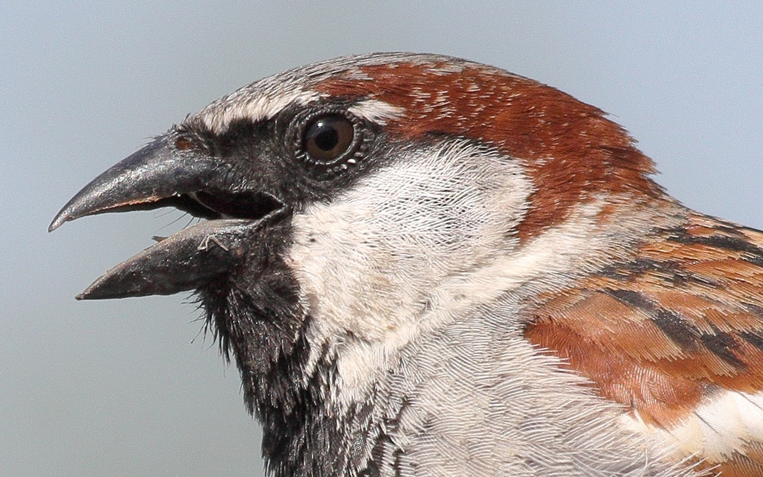 Sparrow (Passer domesticus) close-up